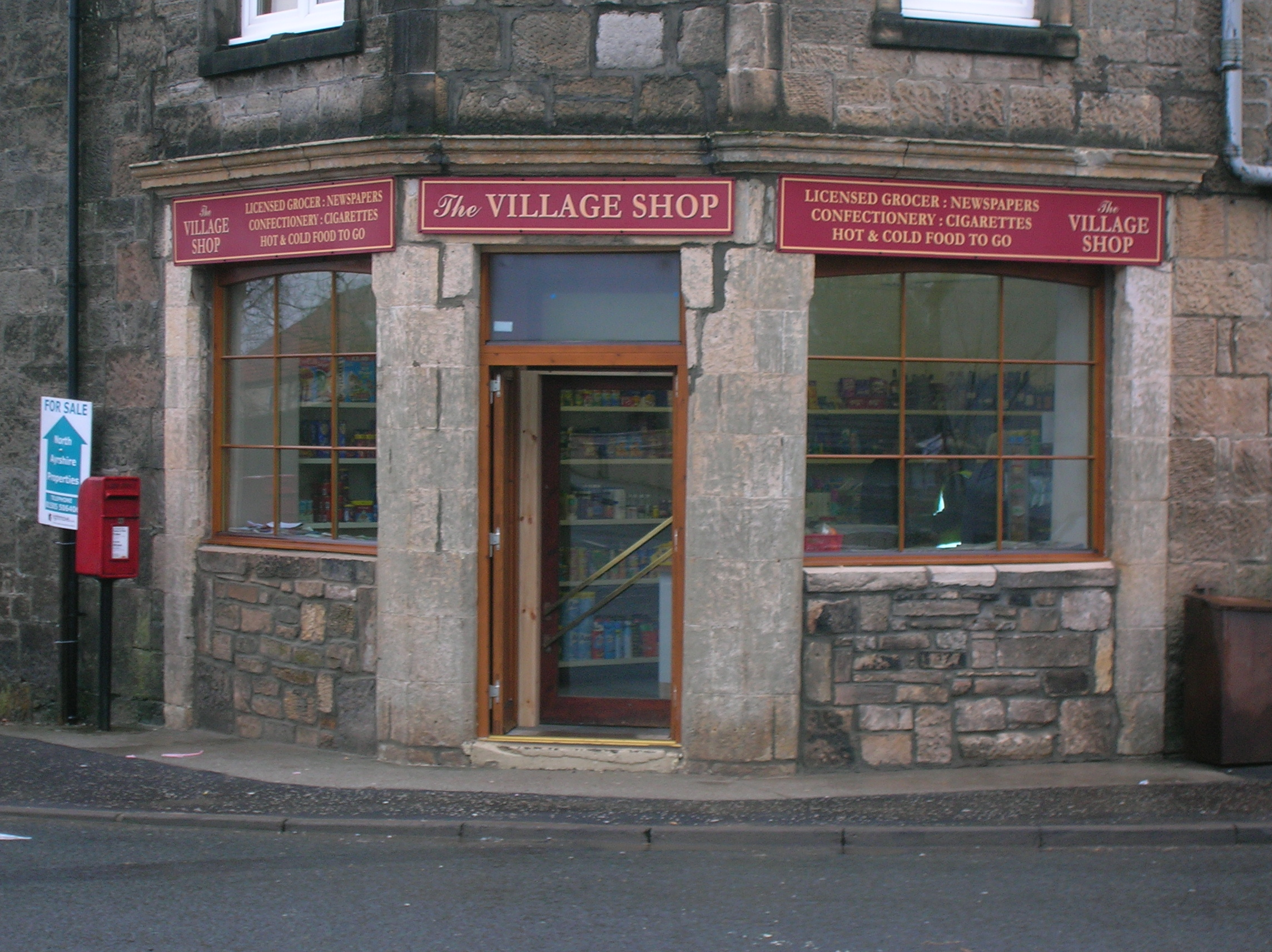 Barrmill Village Shop following restoration, North Ayrshire, Scotland.